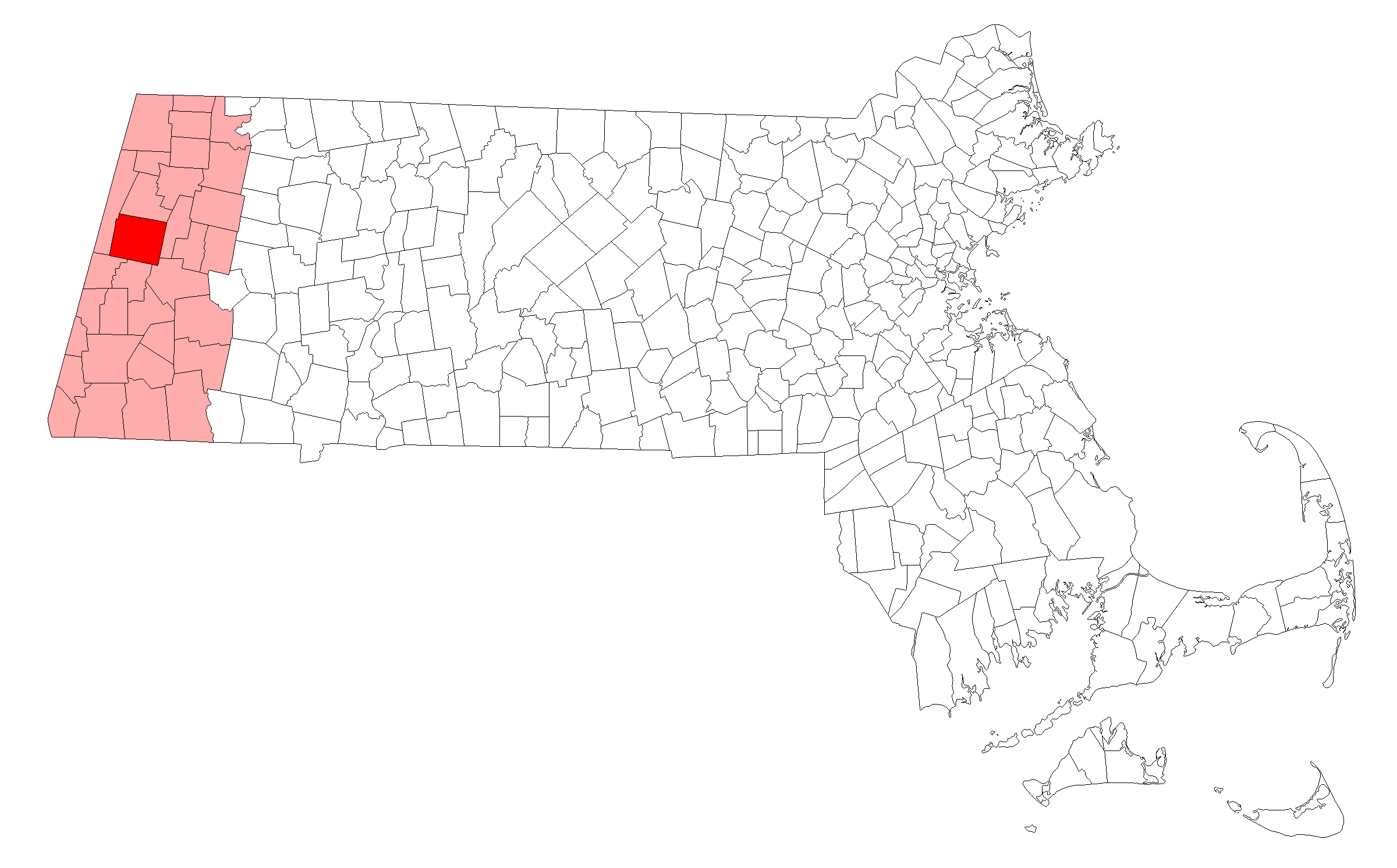 Location of Pittsfield in Berkshire County, MA.